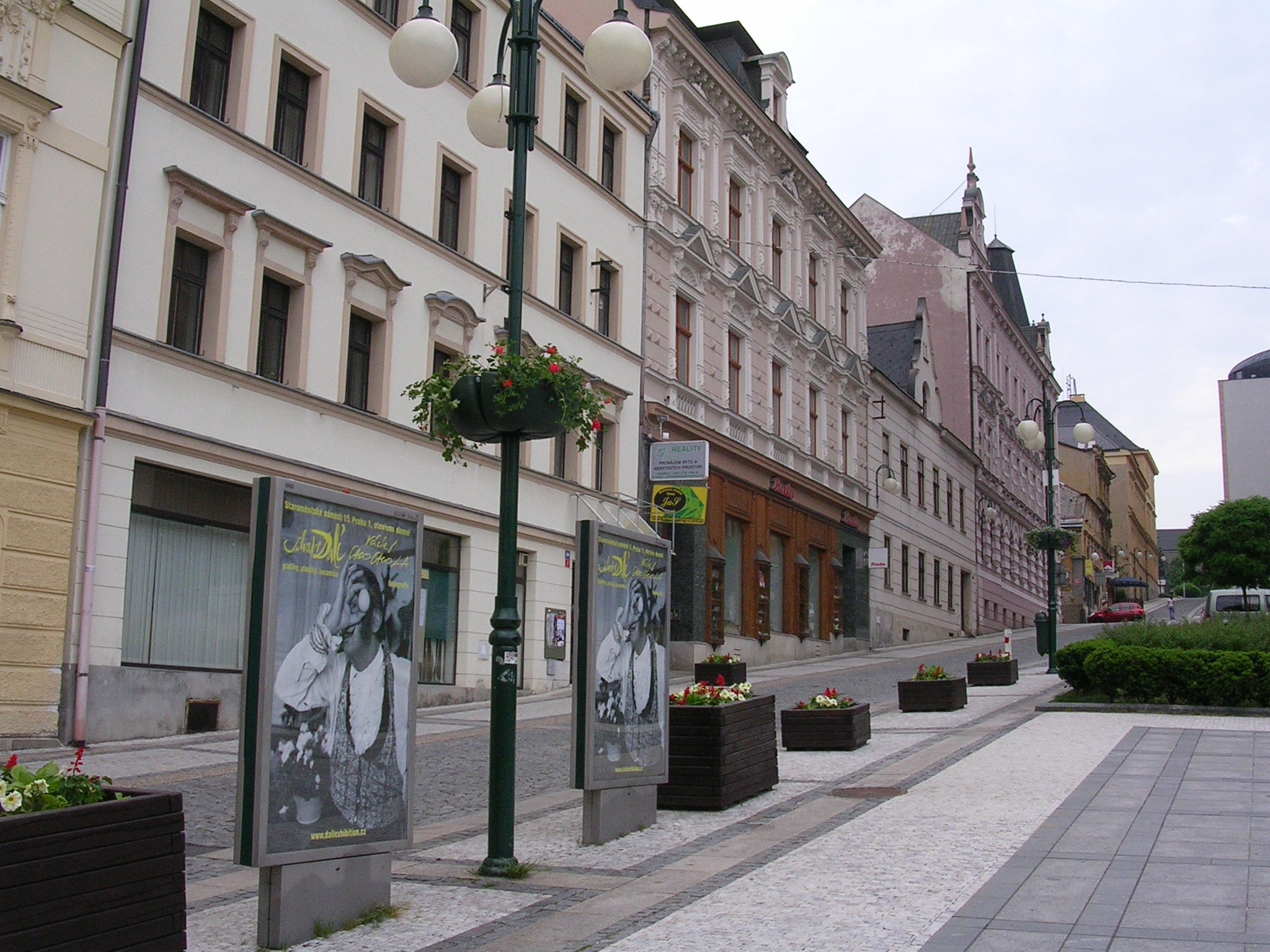 Jablonec nad Nisou. The Czech Republic.